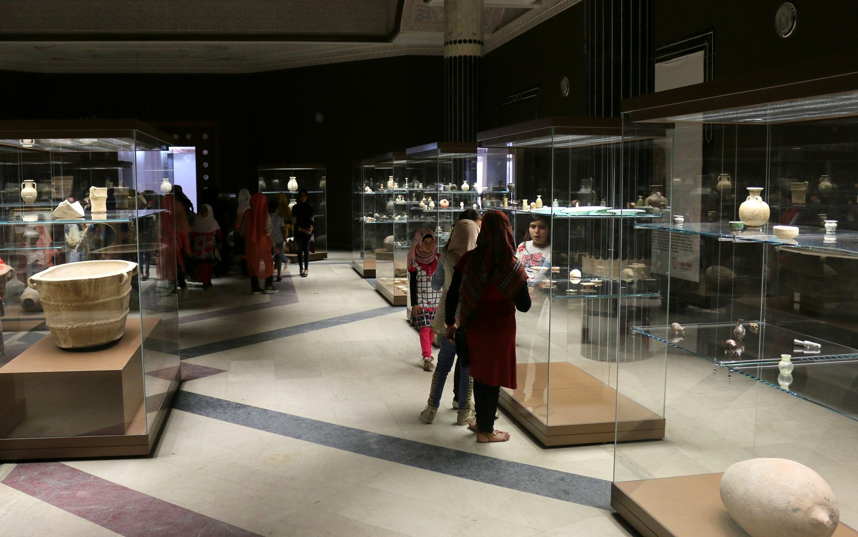 Students (School Children) at Basra Museum - Iraq 2017 - Photo by Persian Dutch Network